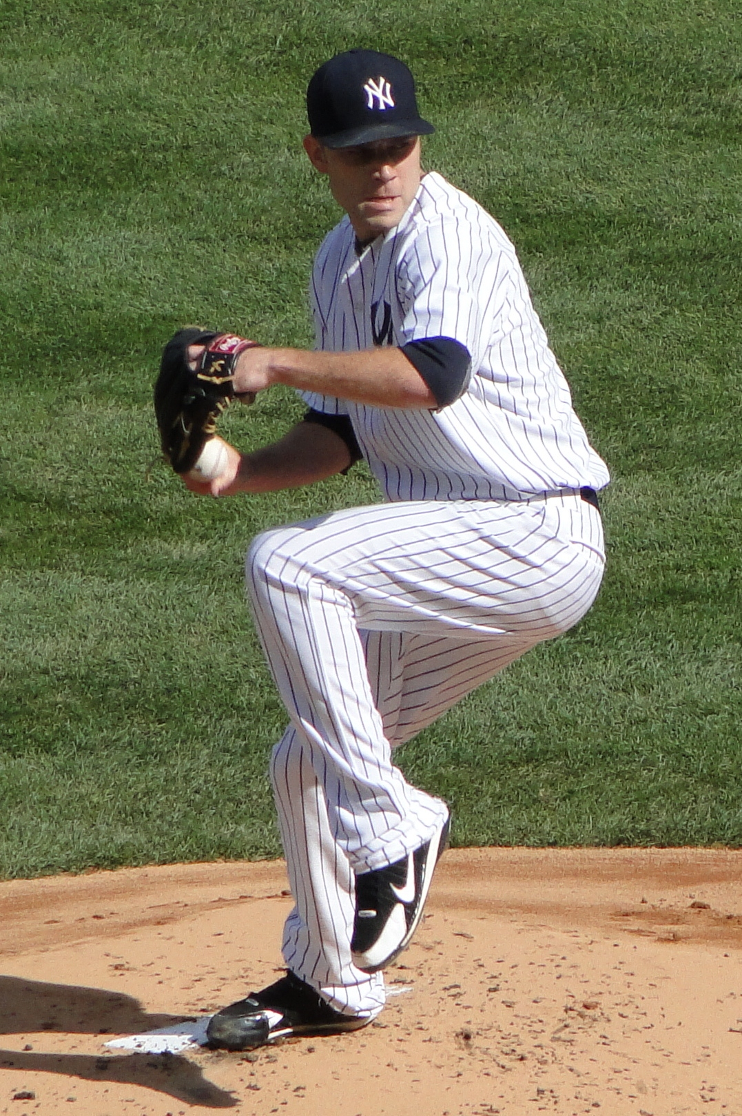 David Phelps throws from the mound at Yankee Stadium against the Boston Red Sox on August 18th, 2012.